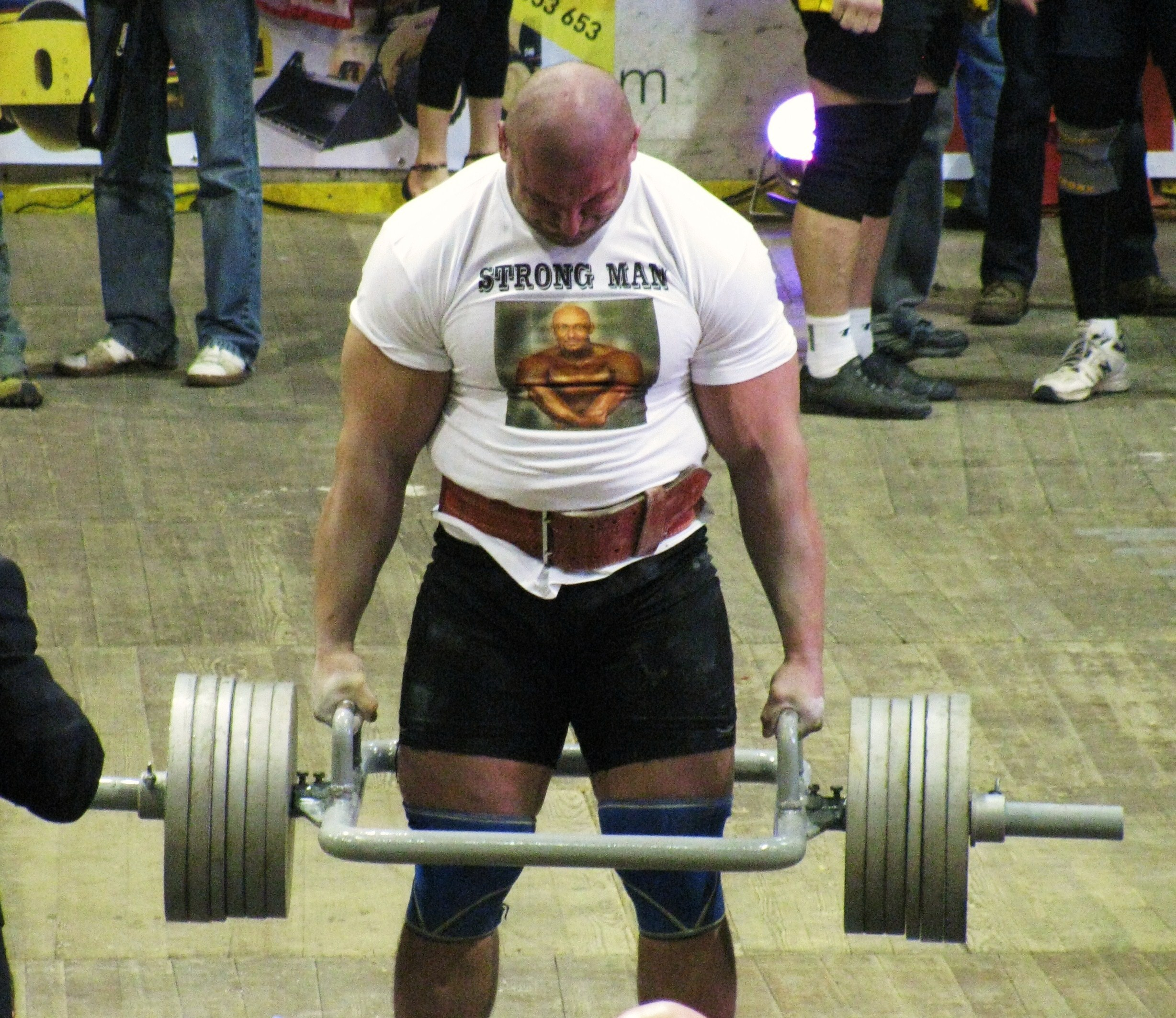 Slawomir Orzel - a strength athlete from Poland